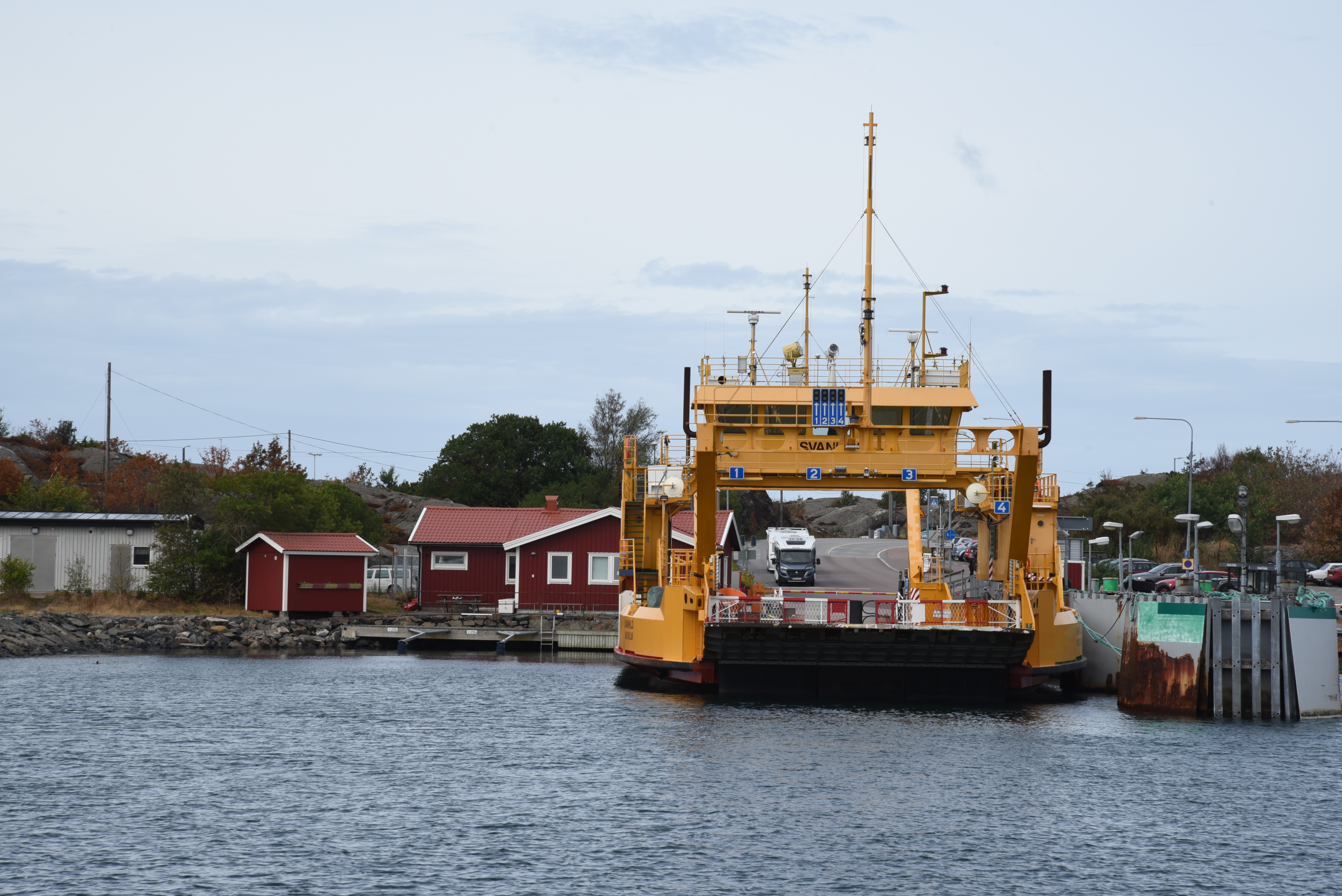 The ferry 323 Svanhild on Björköleden in Öckerö Municipality.